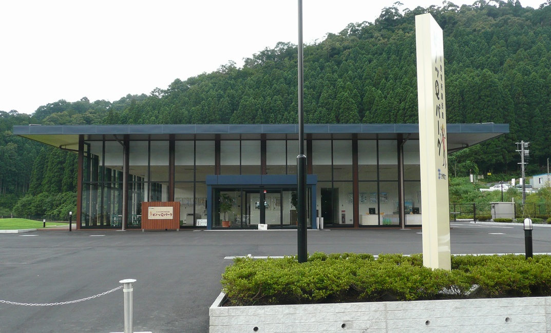 PinoQ Park (Kijō, Miyazaki, Japan).